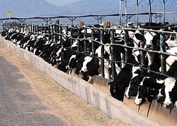 View of concentrated animal feeding operation (CAFO).